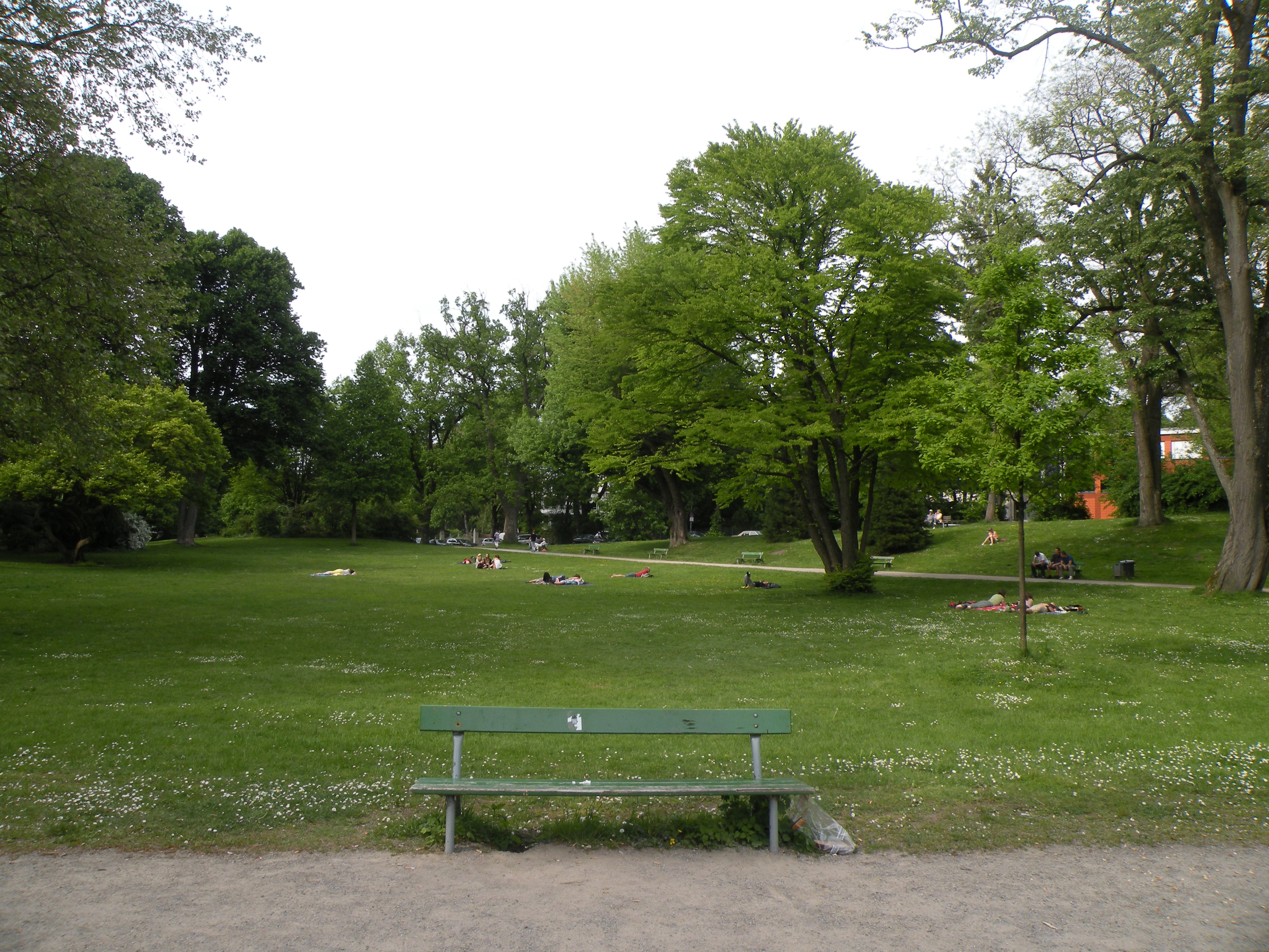 View over a large lawn in Hangeweiher park